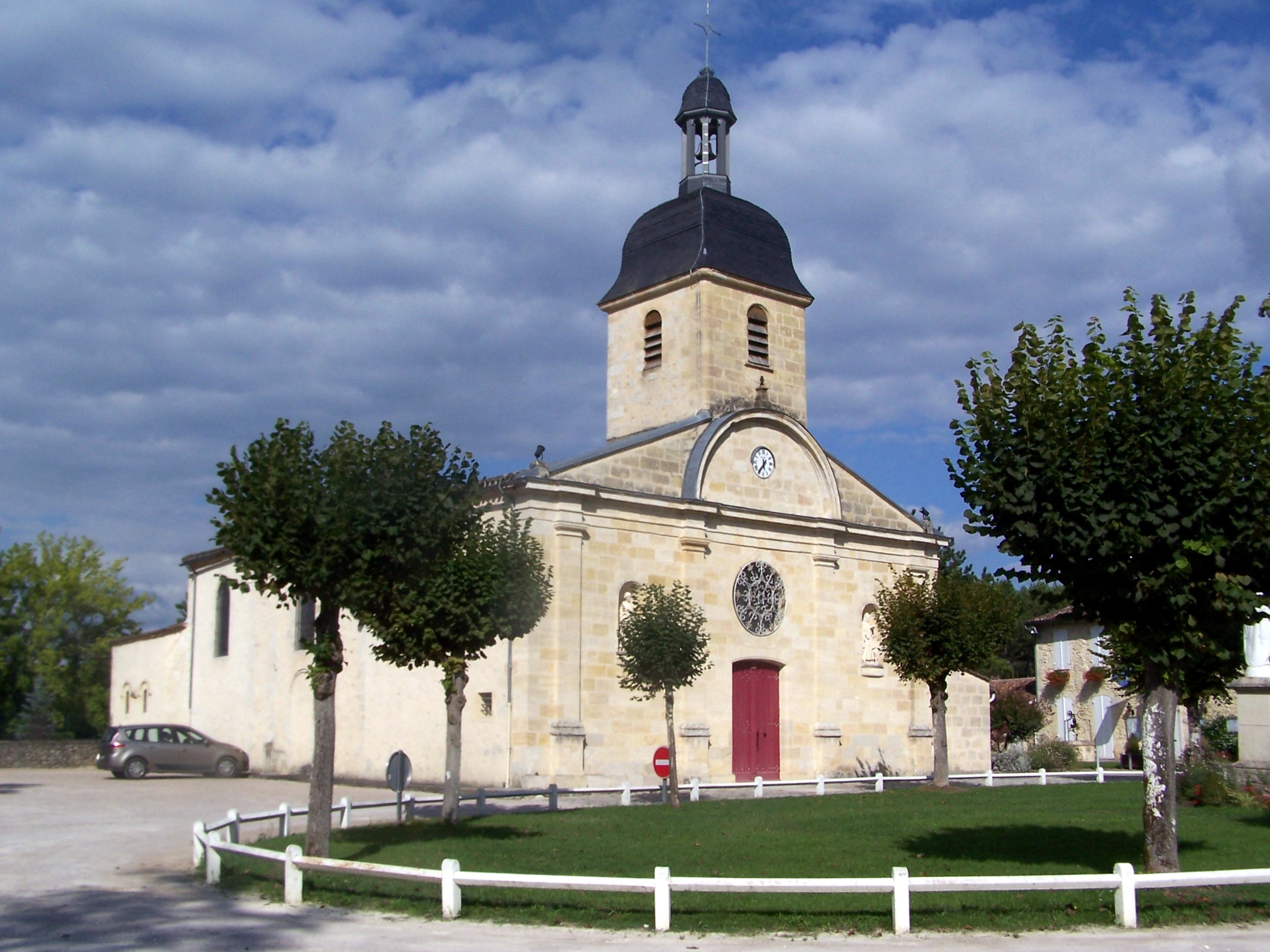 Saint-Sévère church of Saint-Selve) (Gironde, France)